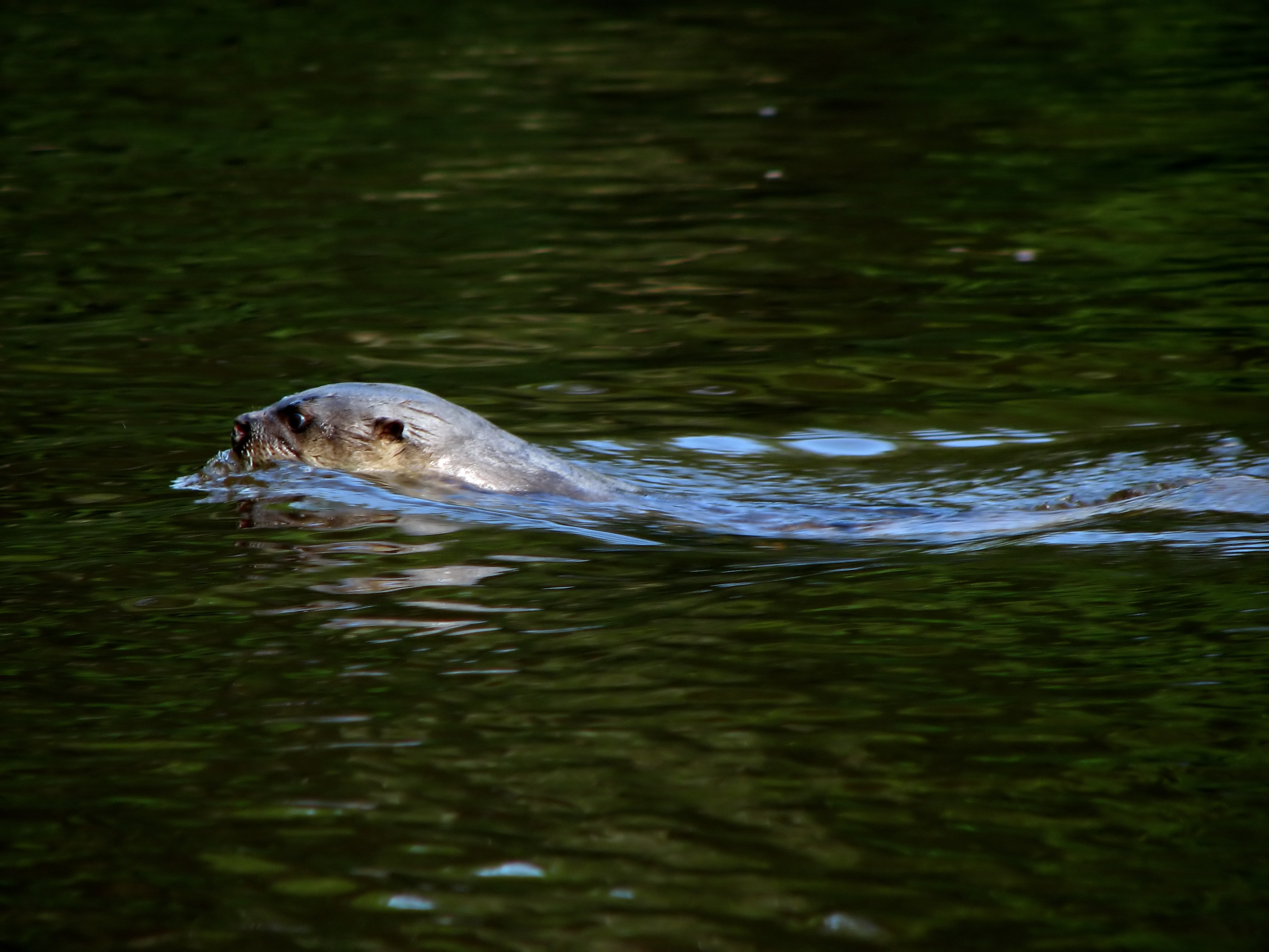 River otter